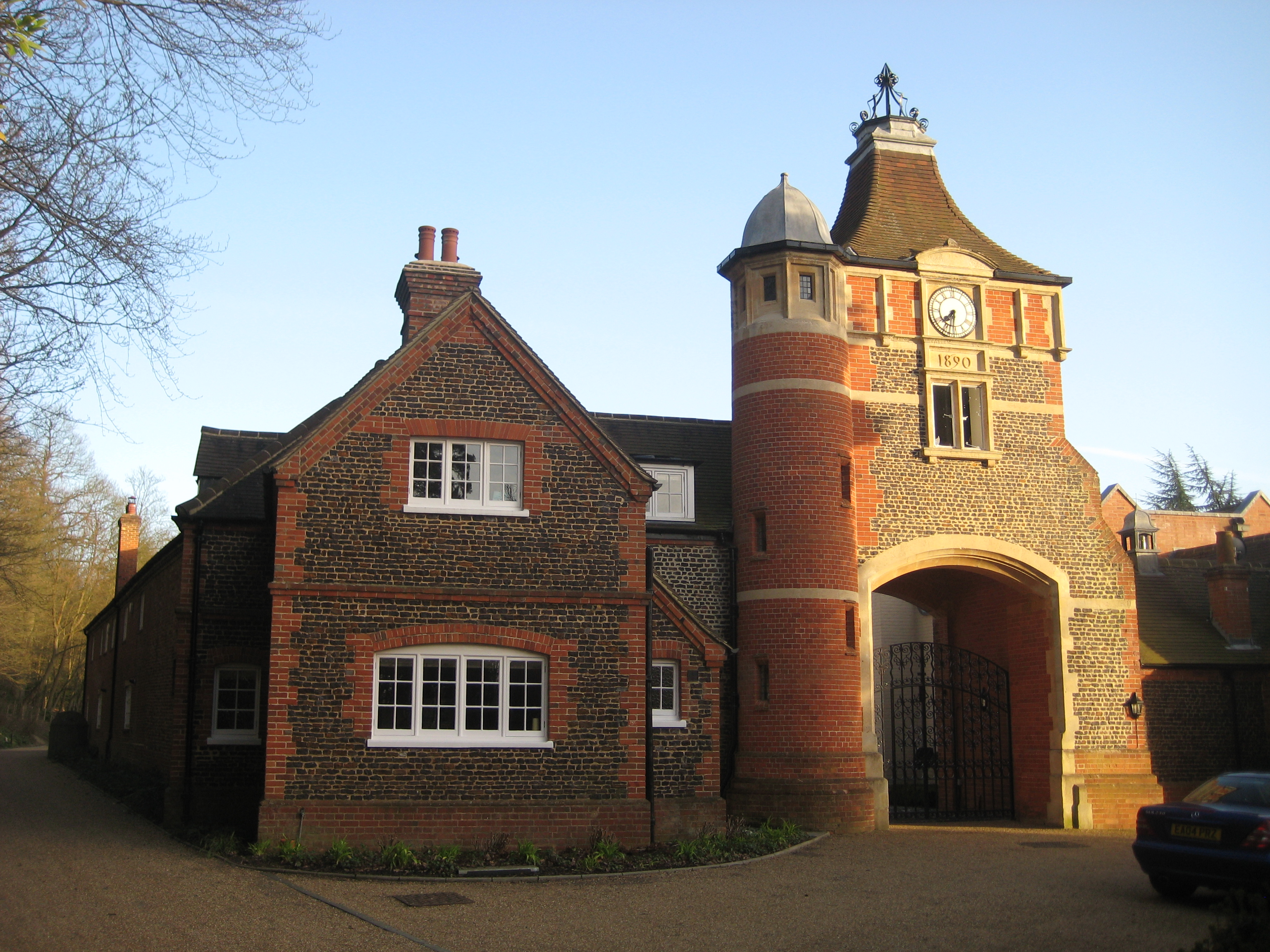 Moor Park House, Moor Park, Farnham, Surrey, England.